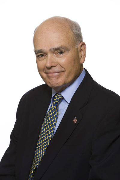 Official photograph of Heritage Foundation Distinguished Fellow in Conservative Thought Lee Edwards